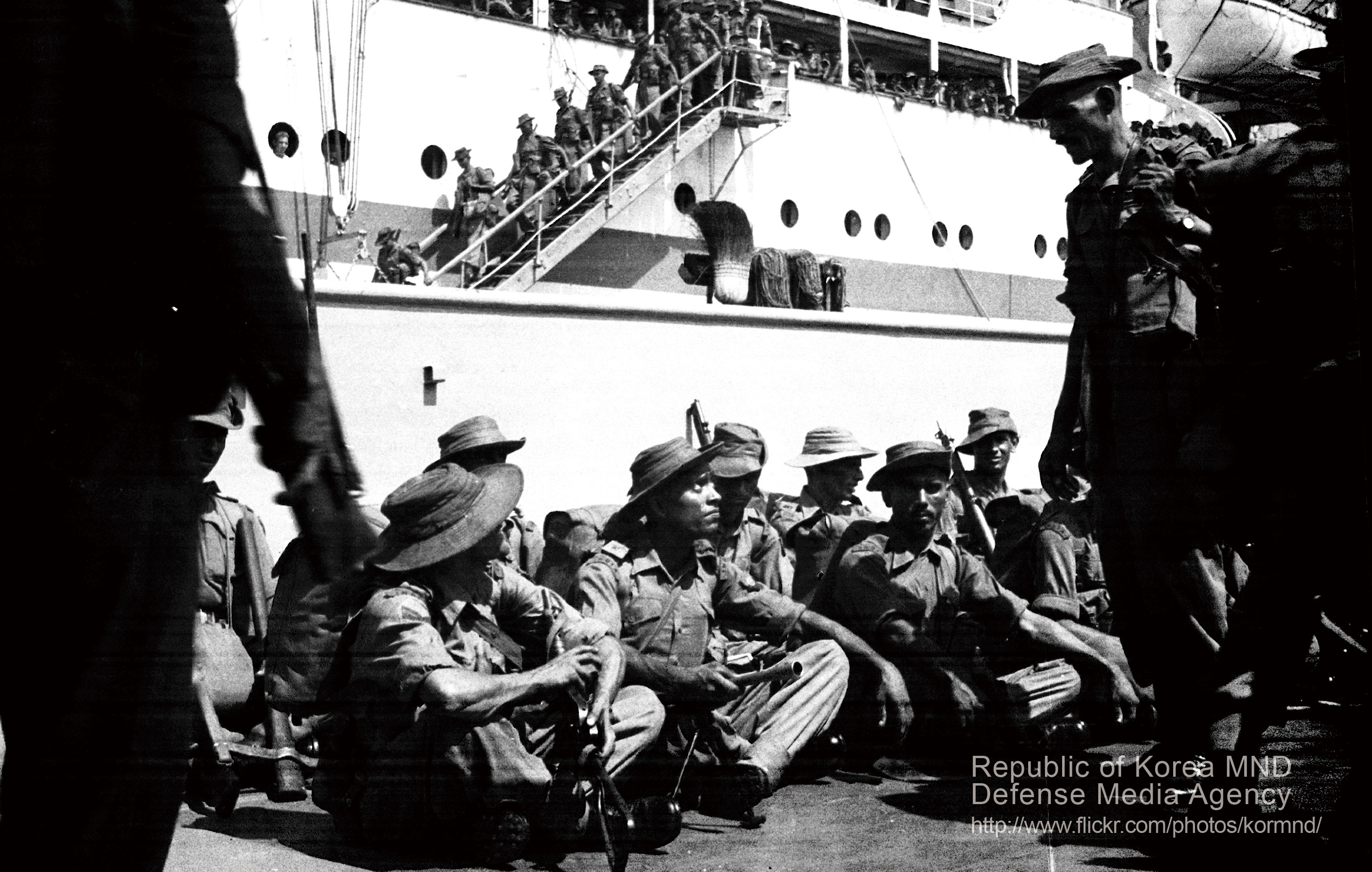 2010 Rep. of Korea, Defense Photo Magazine Indian troops of Neutral Nations Supervisory Commission arriving a Incheon. An officer is educating the soldiers.